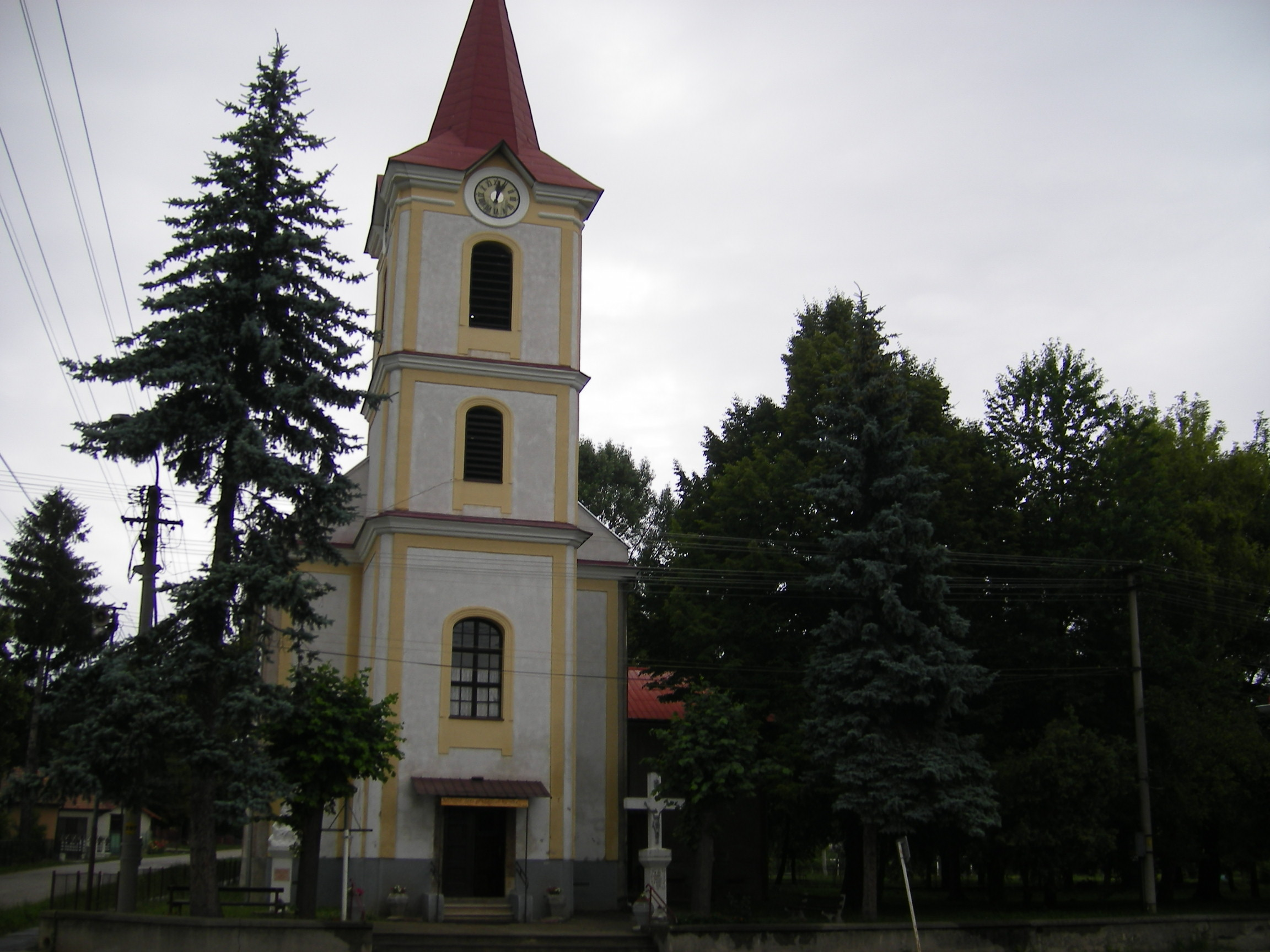 Kolta (okres Nové Zámky) catholic church